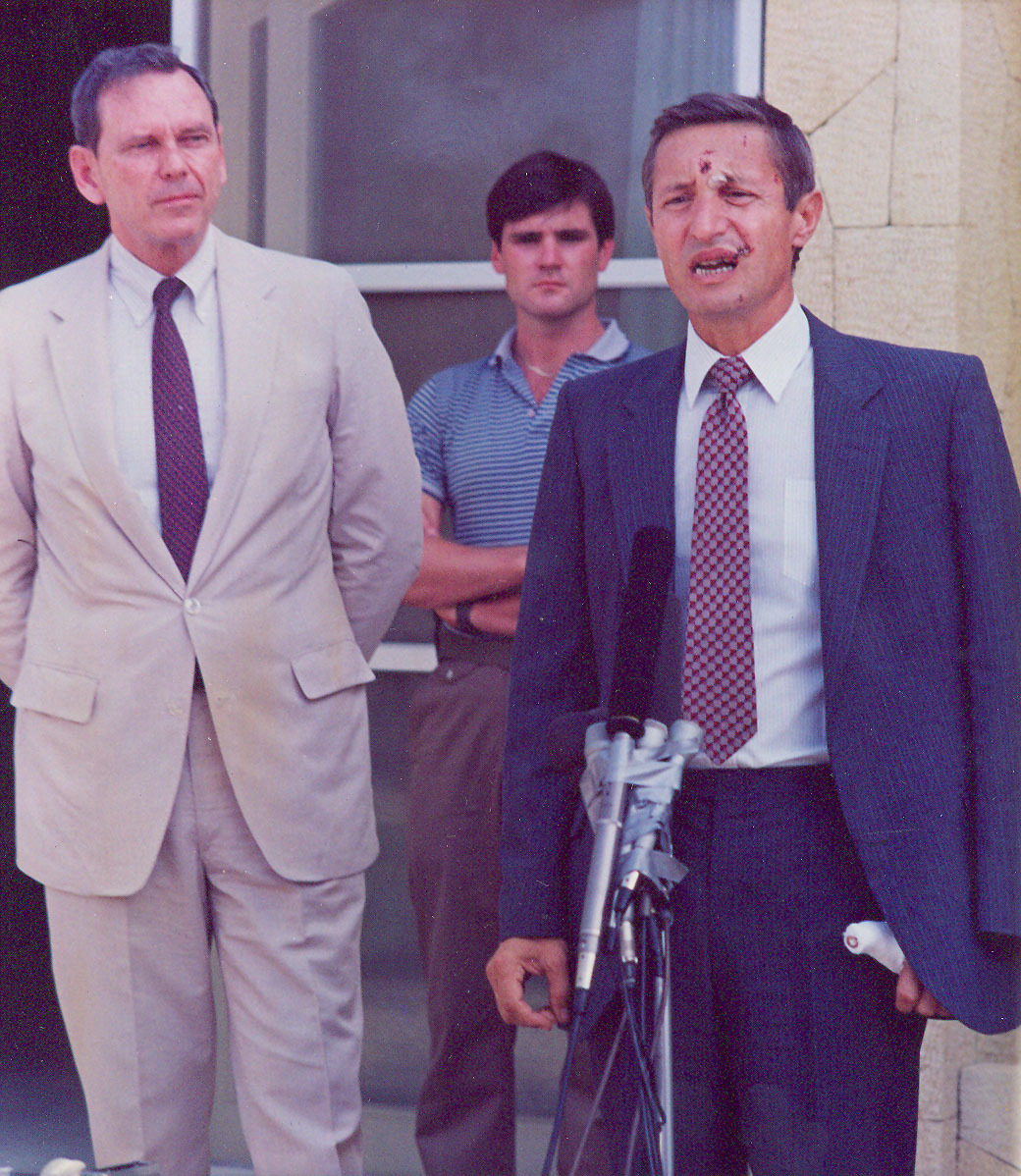 Former United States Ambassador to Lebanon Reginald Bartholomew at a press conference in Beirut, Lebanon with Richard W. Murphy, United States Assistant Secretary of State for Near Eastern affairs. Photograph by Nancy Wong, September 1984.